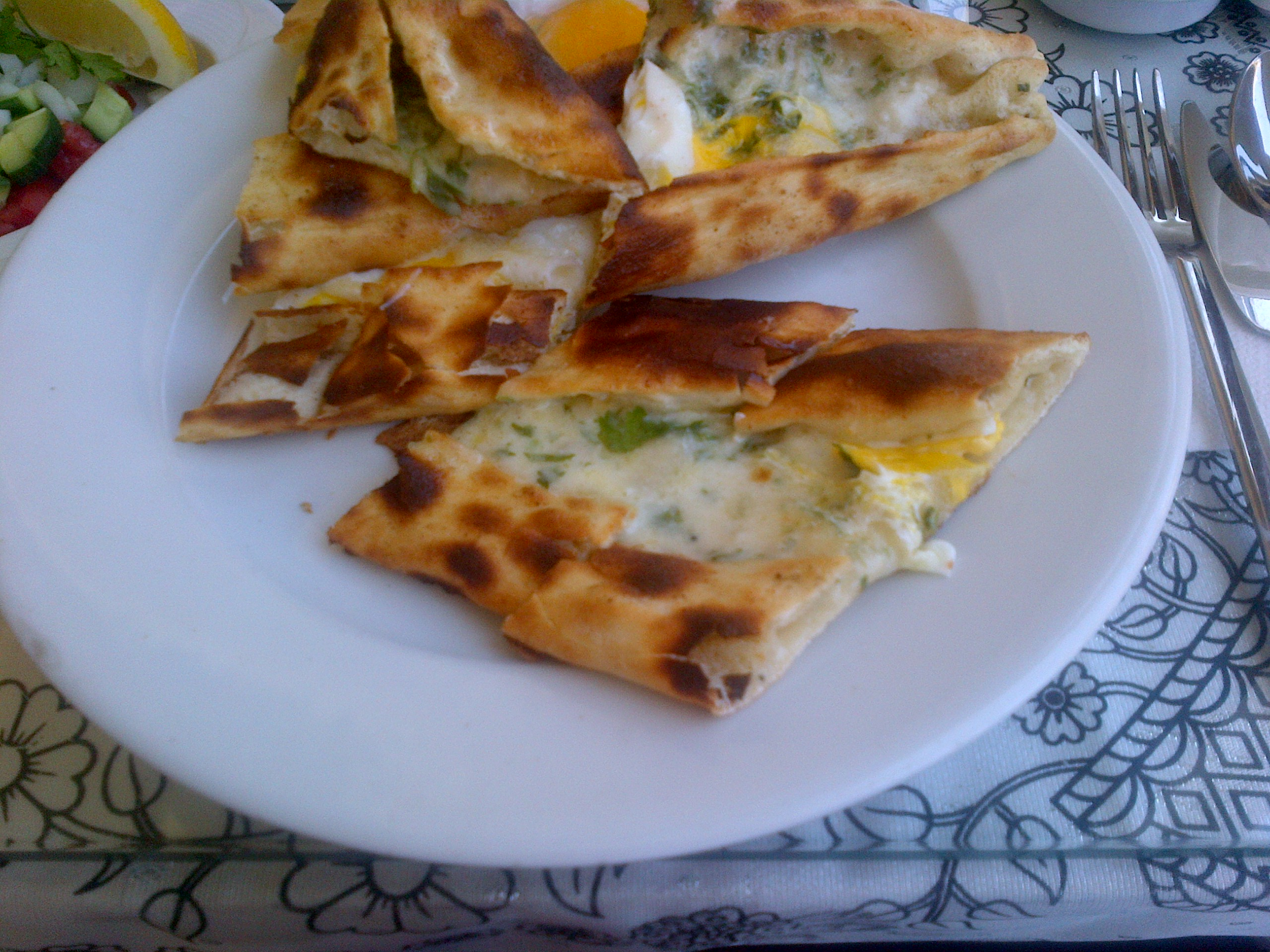 Turkish pide, with "çökelek" (a kind of Turkish cheese) and an optional egg on top.